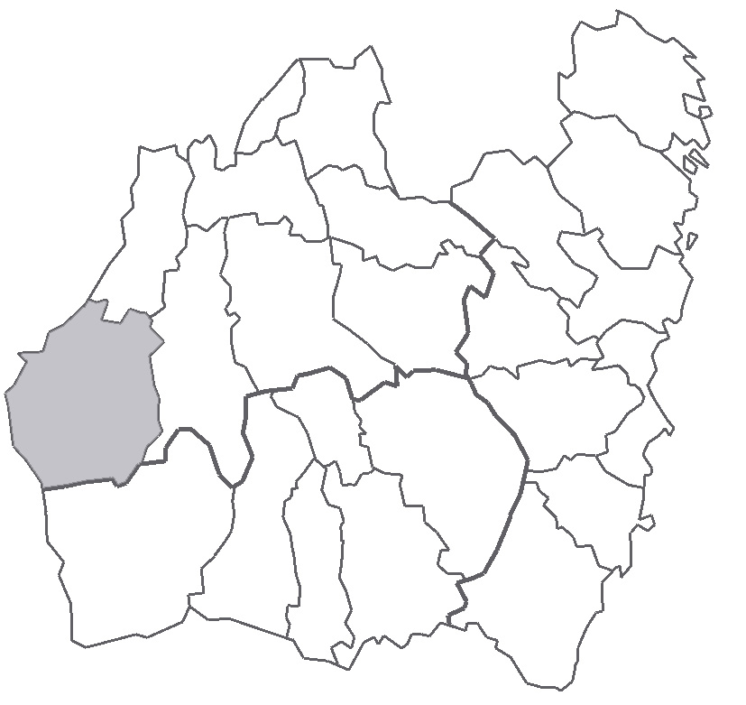 Map describing the location of Västbo Hundred in the province of Småland, Sweden.